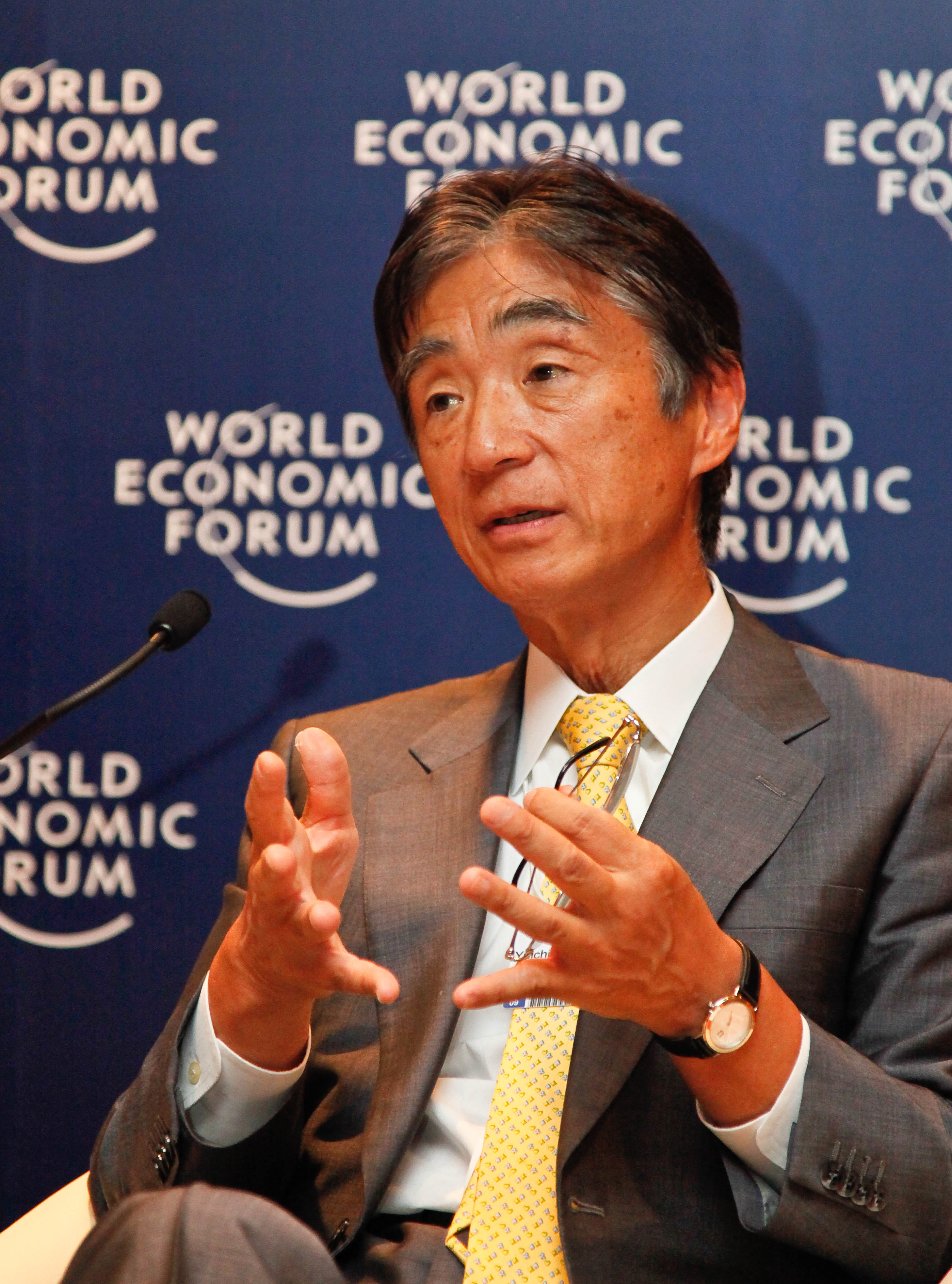 SEOUL/SOUTH KOREA, 18JUN09 - Anzai Yuichiro, President, Keiko University, Japan - captured during the World Economic Forum on East Asia in Seoul, South Korea, June 18, 2009. Copyright World Economic Forum ( by Oh Jaehyuk